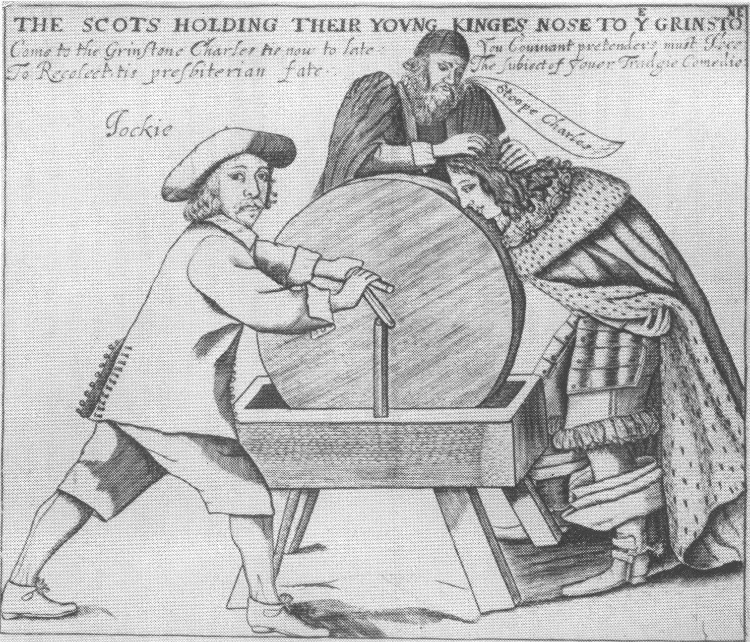 The Scots Holding Their Young King's Nose To the Grindstone. A satirical view of the Scots imposing conditions on Charles in return for supporting his claims to the Scottish and English crowns, from a contemporary English pamphlet.